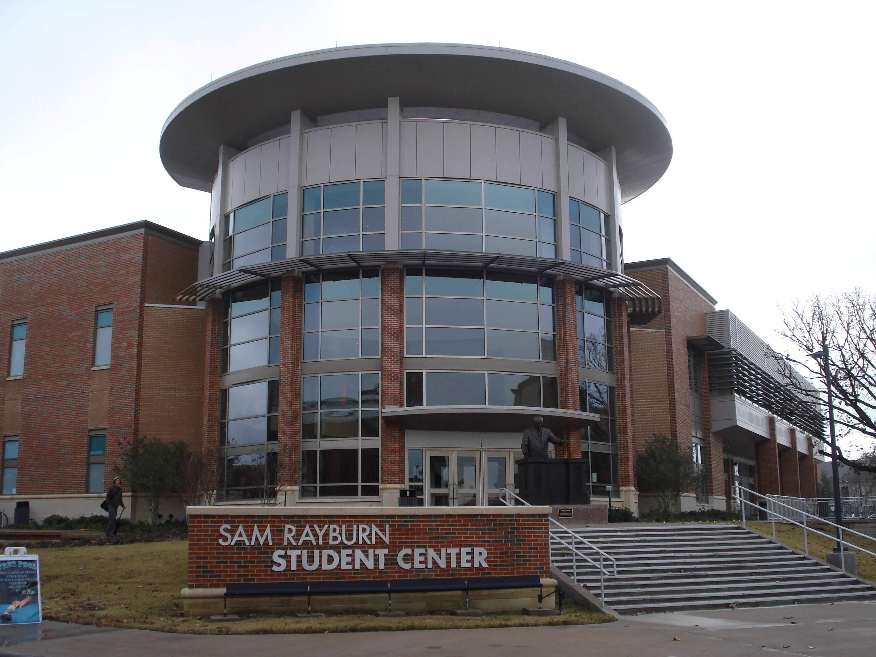 Front entrance of the Sam Rayburn Student Center (the 'new MSC') on the Texas A&M University- Commerce campus in Commerce, Texas.